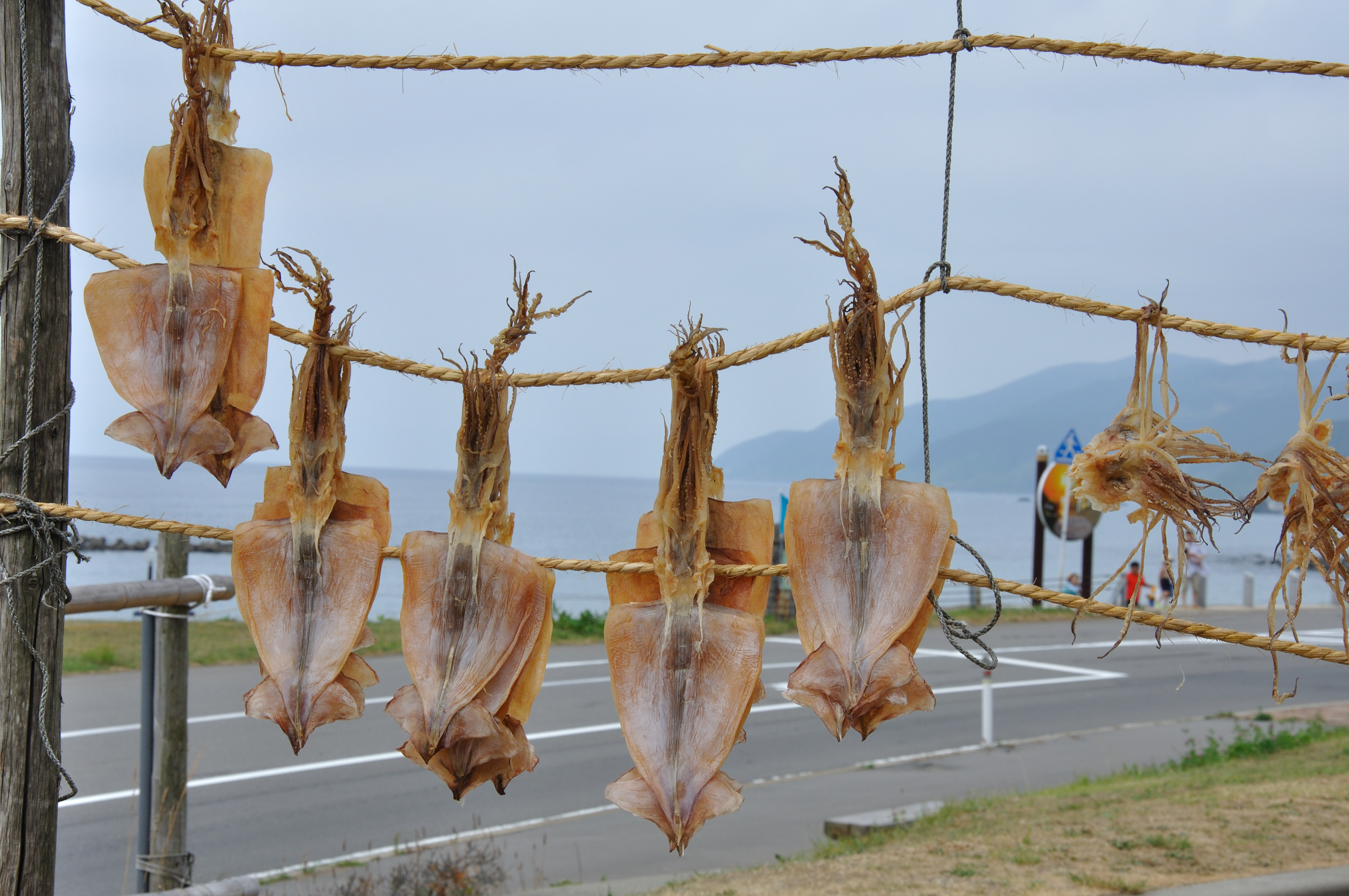 squid dry on rope in Kodomari